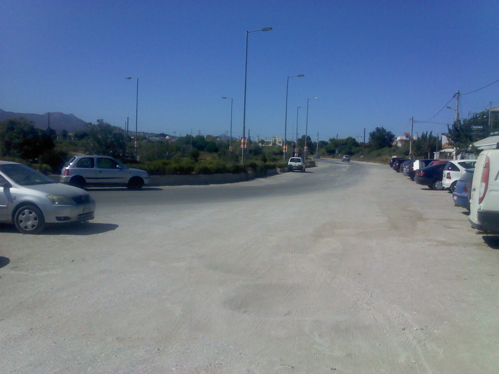 Square Terma Alikes Artemidas